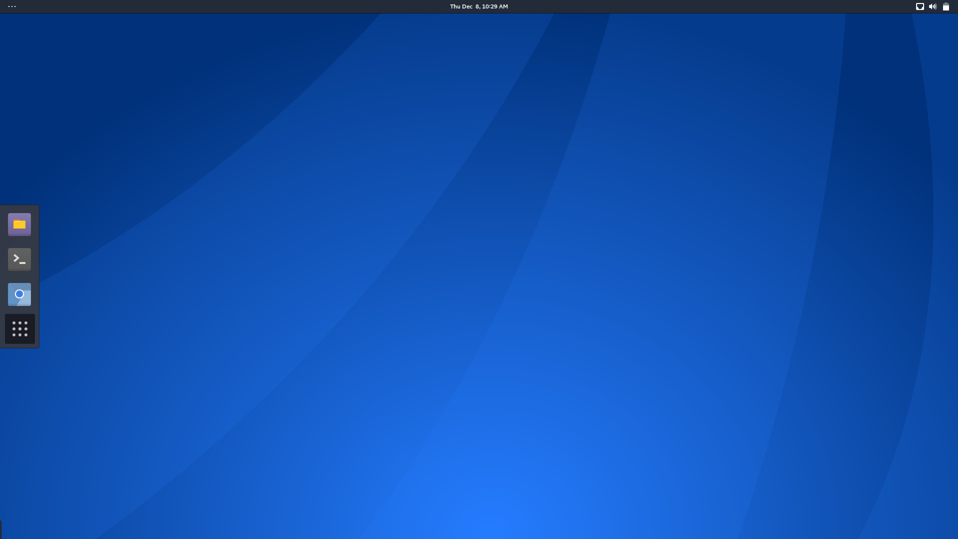 Antergos Linux 2016.09.25 GNOME